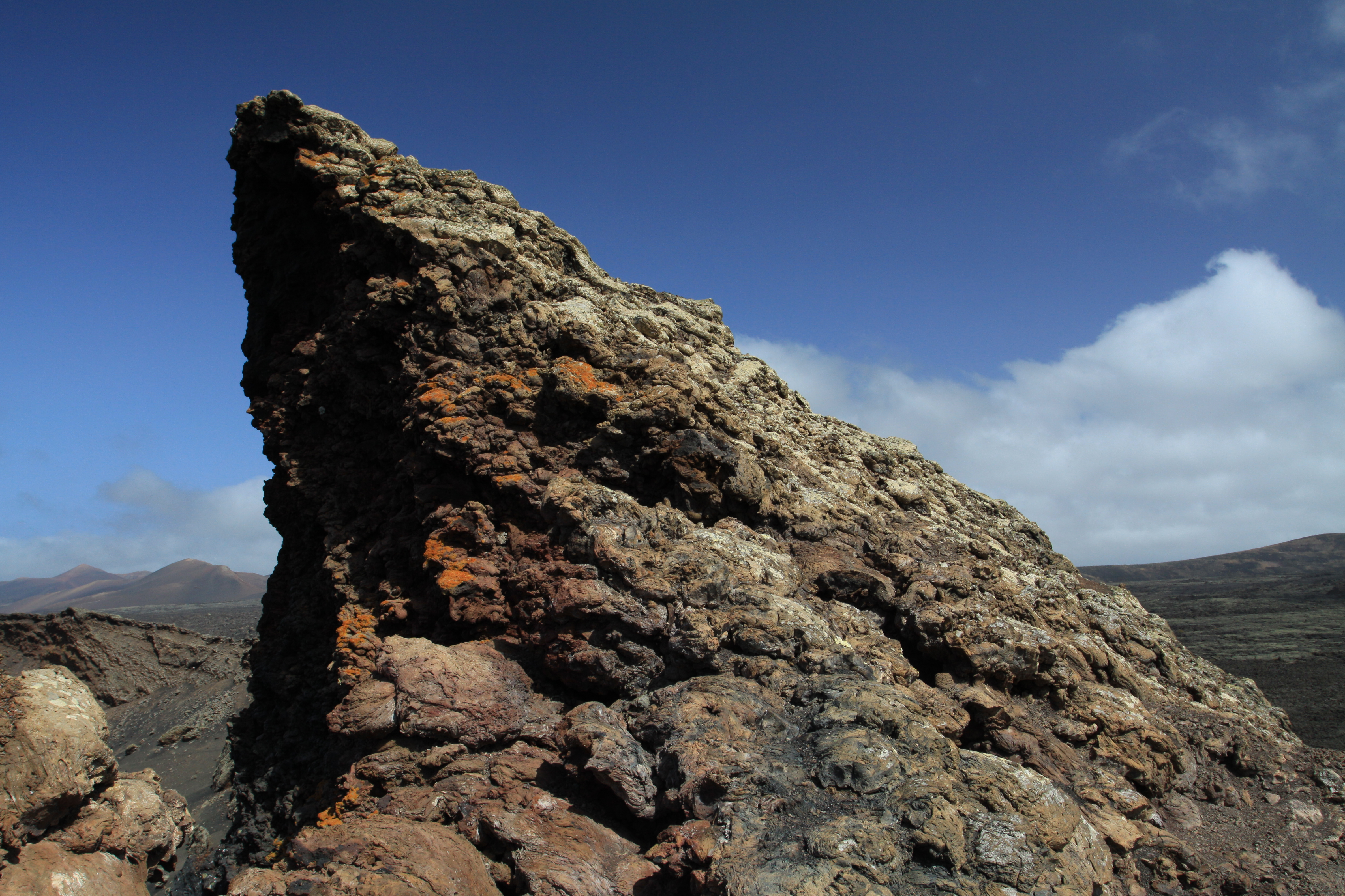 Inner crater rim formed by spatter particles forming part of scoria cone called "Caldera de los Cuervos" situated western from Masdache village on Lanzarote, The Canary Islands, Spain.